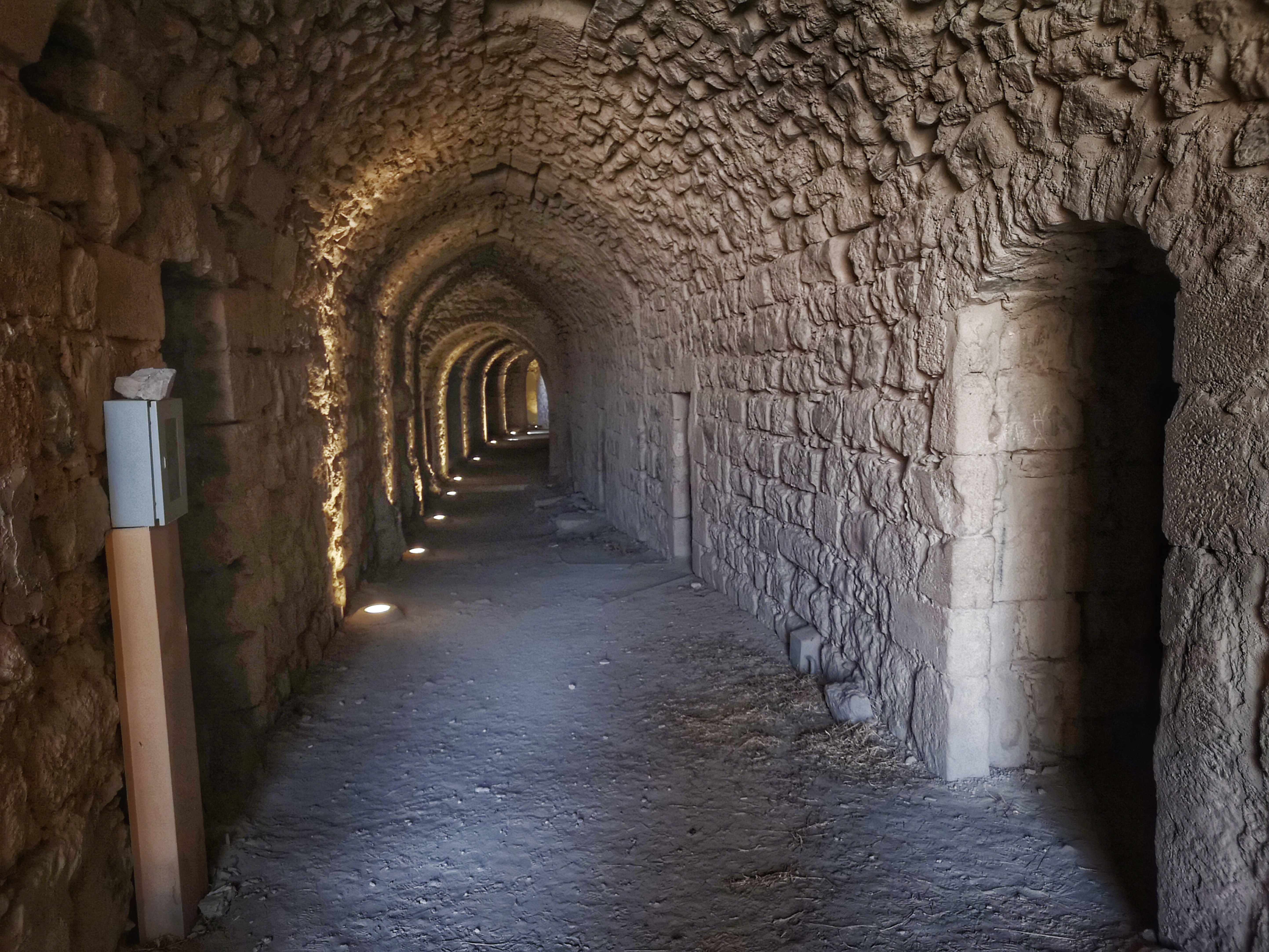 Kerak Castle is a large Crusader castle located in al-Karak, Jordan. It is one of the largest crusader castles in the Levant. Construction of the castle began in the 1140s, under Pagan and Fulk, King of Jerusalem. The Crusaders called it Crac des Moabites or "Karak in Moab".